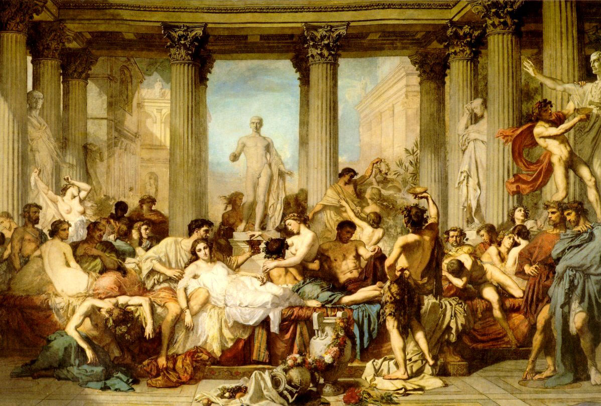 The Romans of the Decadence